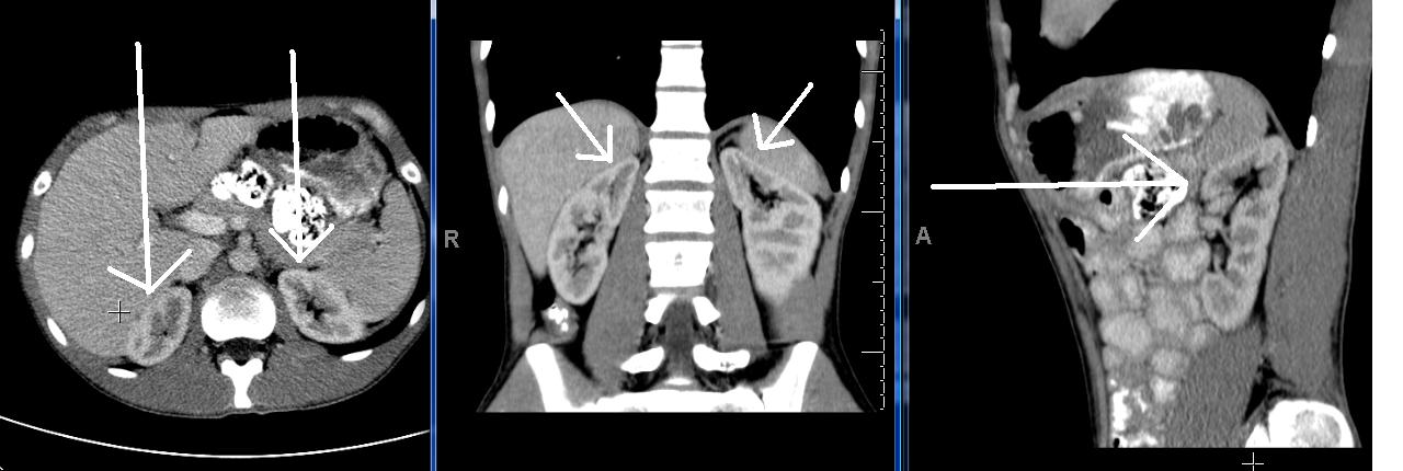 A CT Scan of my(RGshredfox's) adrenal glands